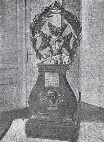 Urn with the remains of Gotse Delchev held in Sofia, Bulgaria, until 1944.